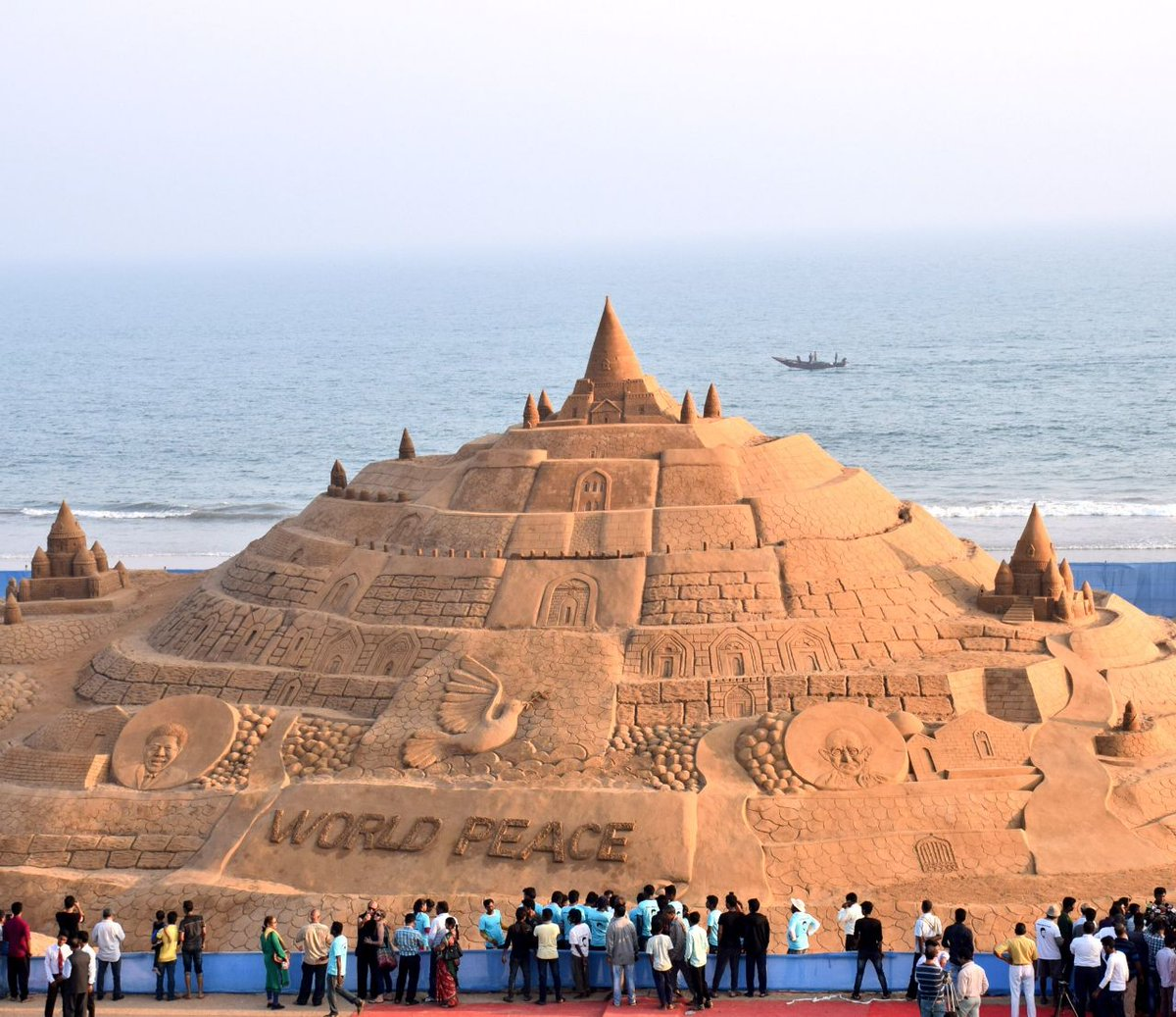 Tweet Text: Guinness World Record for @sudarsansand on sculpting world’s tallest sand castle at Puri beach is indeed gladdening. Congratulations to him